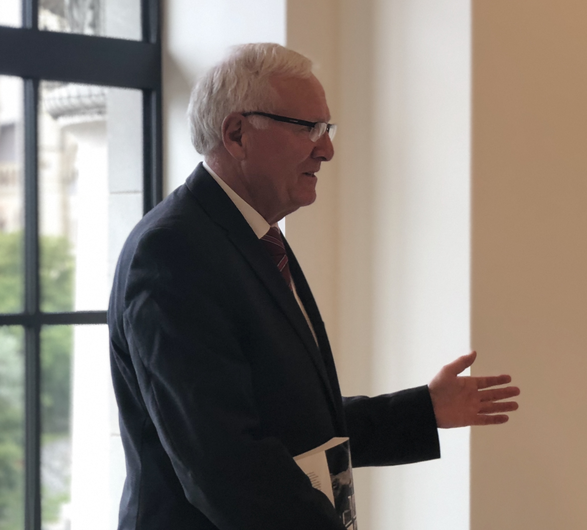 MP Bill Casey pictured while conducting an interview in 2018 for his Private Member's Bill, C-391.